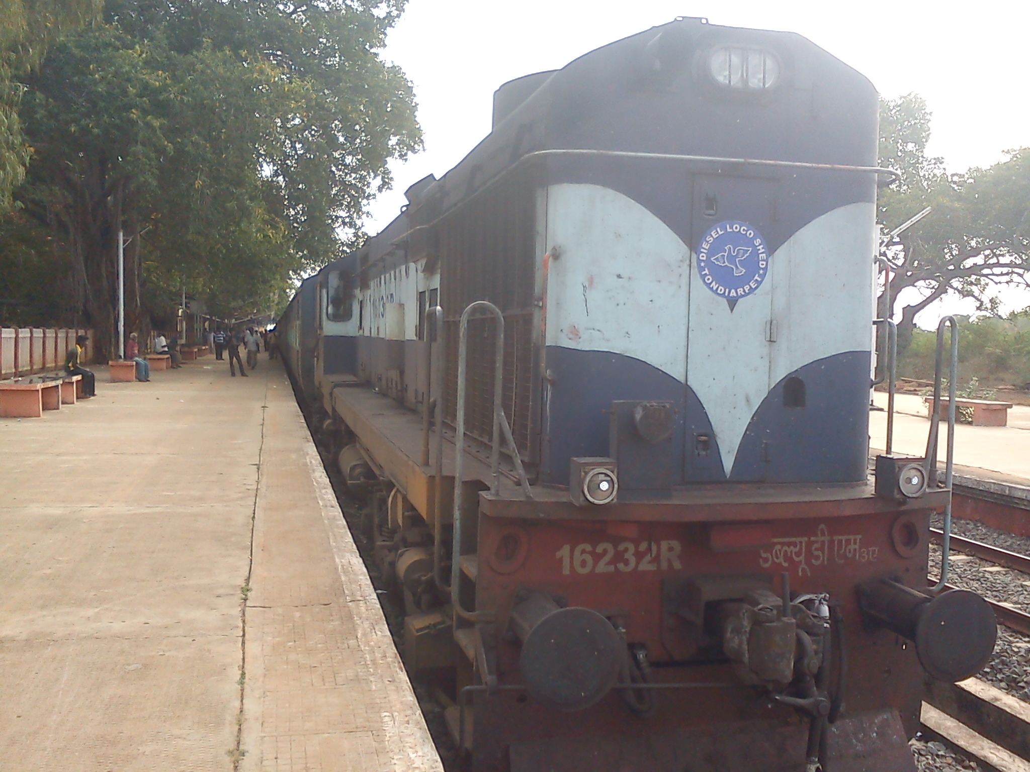 Boat Mail express at Sivagangai